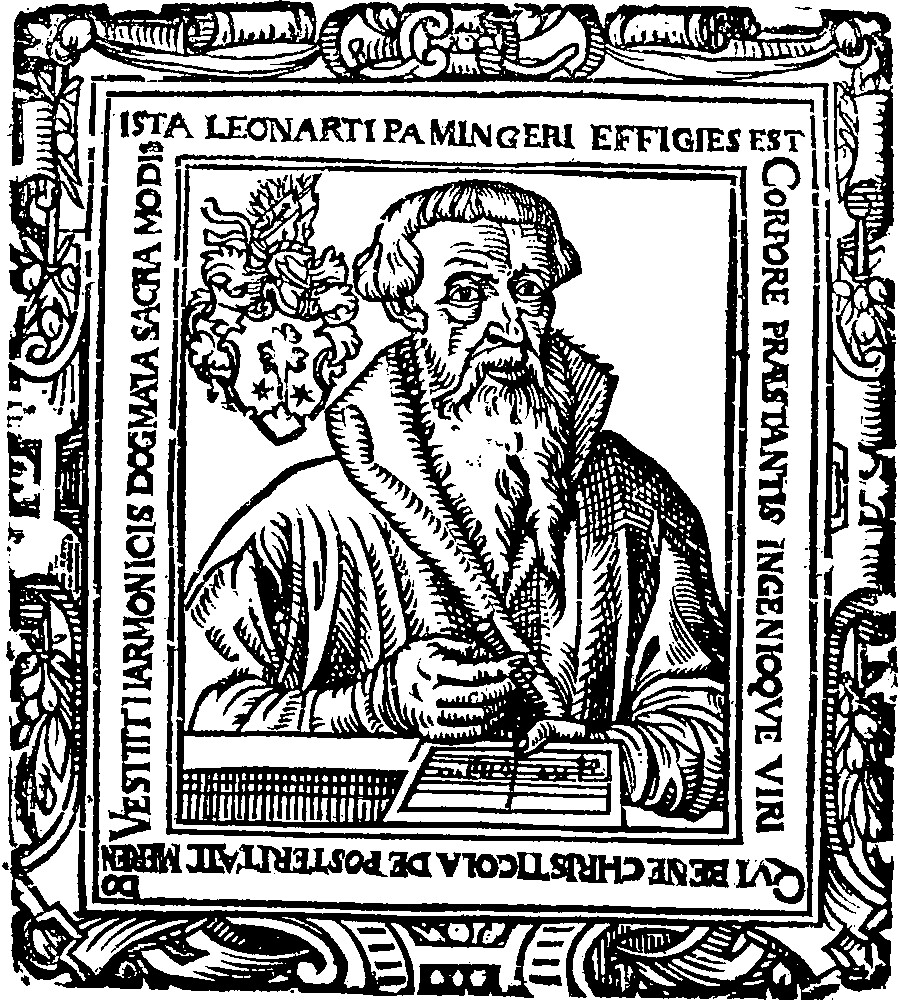 Austrian composer Leonhard Paminger (1495-1567). Woodcut from Paminger's Secundus tomus ecclesiasticarum cantionum... Quinta vox, Norimbergae: in officina Theodorici Gerlatzeni, 1573.